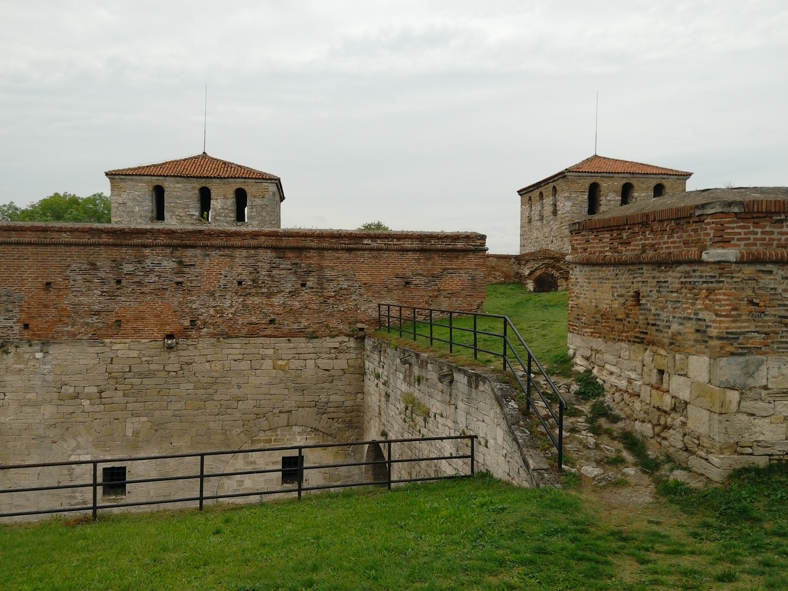 Baba Vida Fortress, Vidin, Bulgaria